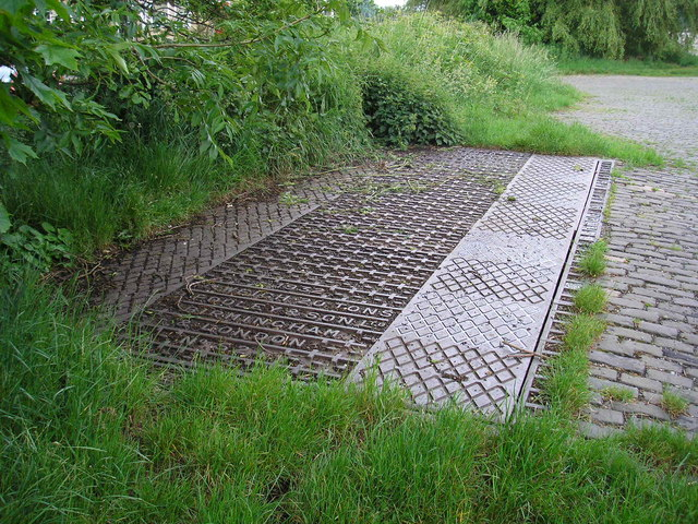 Weighbridge A disused weighbridge on the site of Otley station. Neither station nor railway line now exists but this weighbridge might have been used by a coal merchant on the site. This was common at one time as the coal was delivered directly to the merchants by rail.